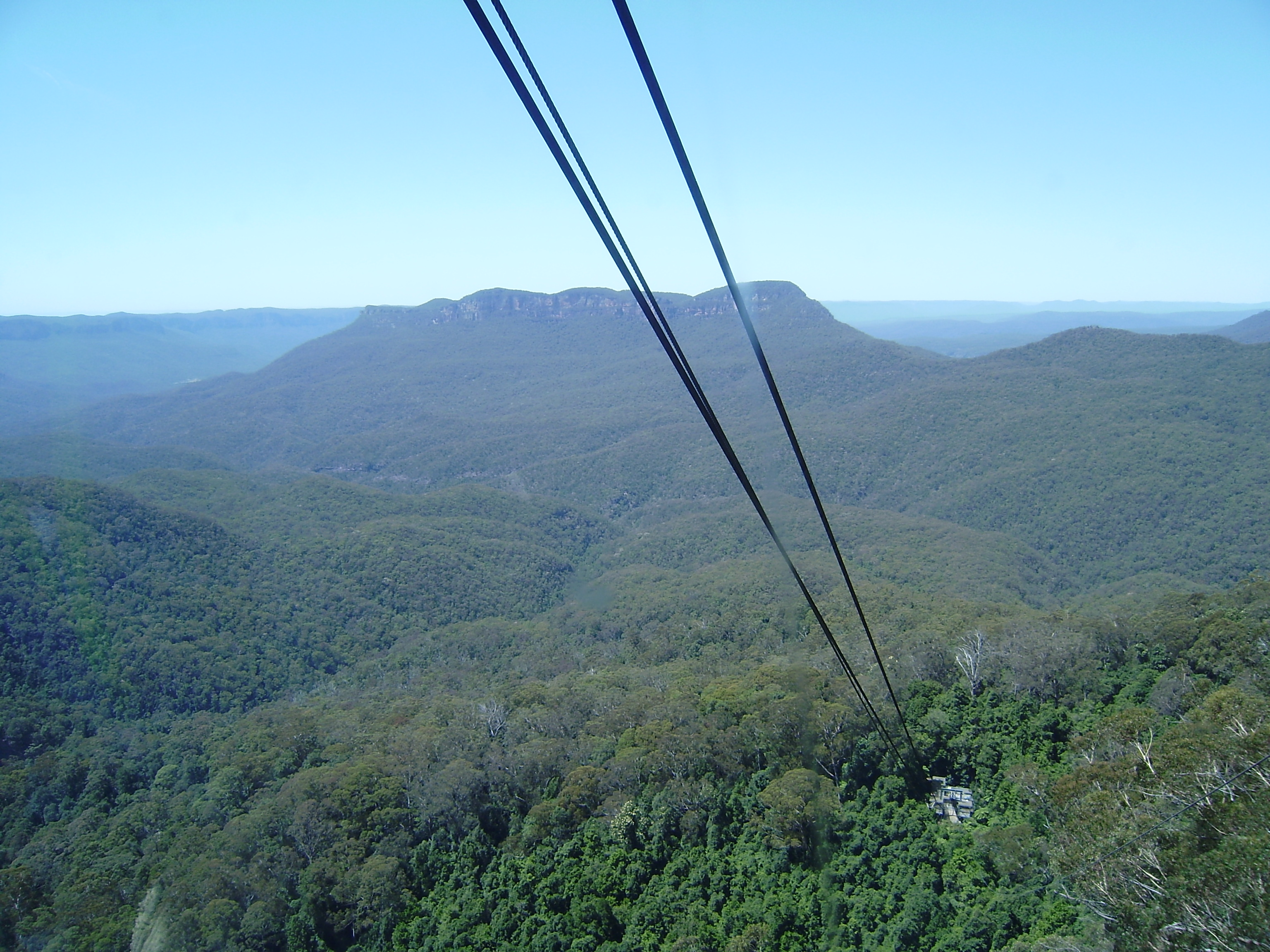 Jamison Valley-Blue Mountains